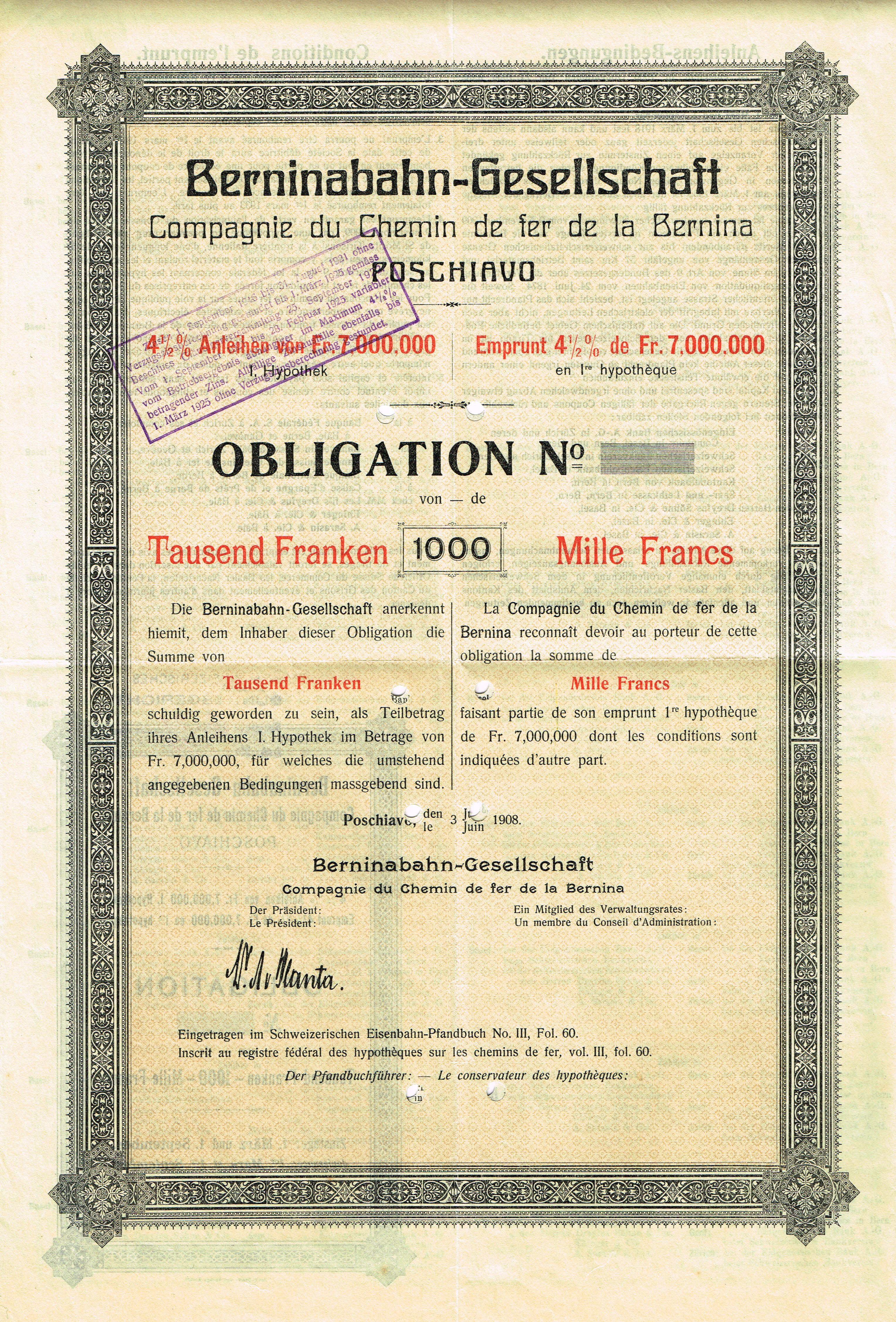 Bond of the Berninabahn-Gesellschaft, issued 3. June 1908